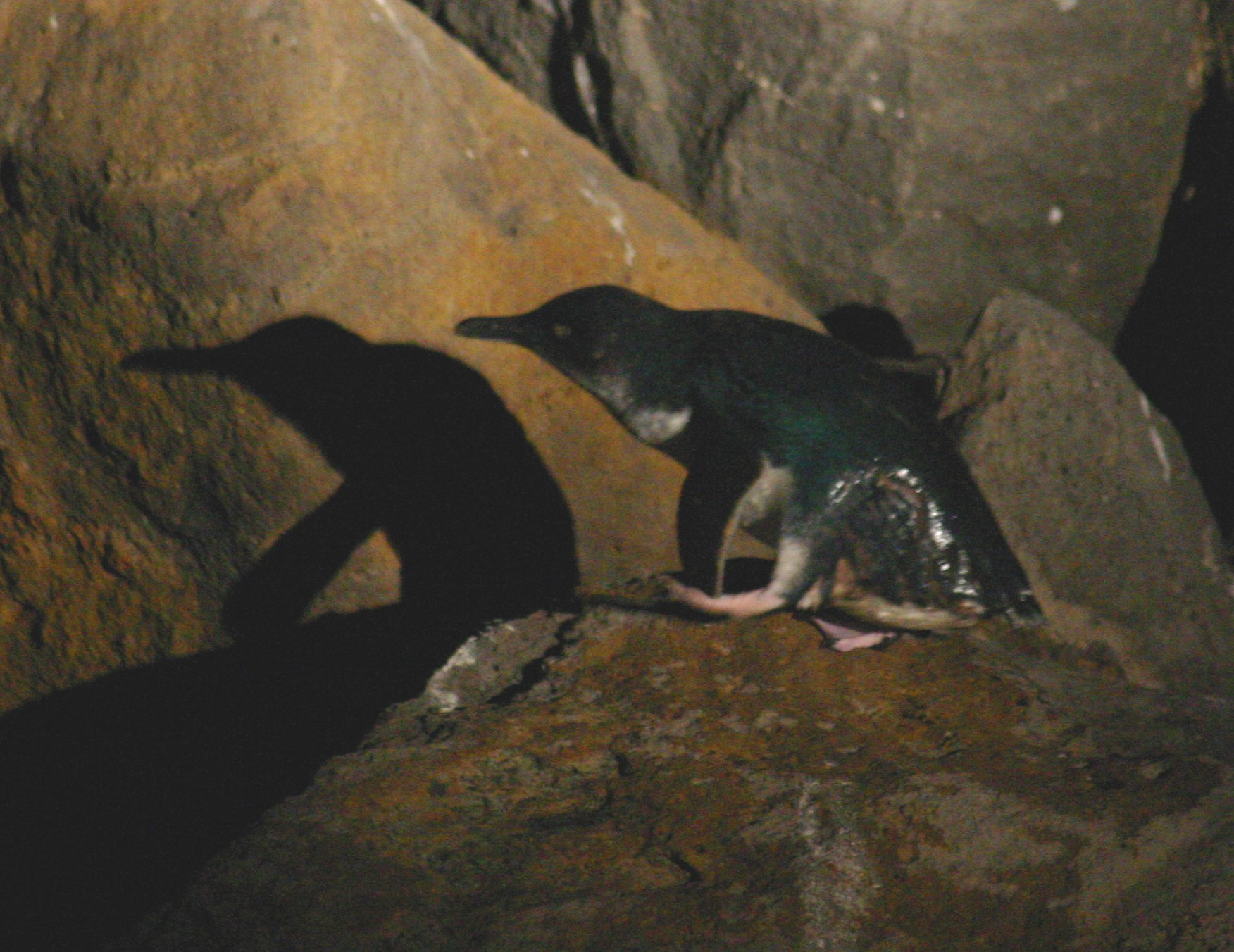 Little Penguin climbing to its nest on the St Kilda Breakwater